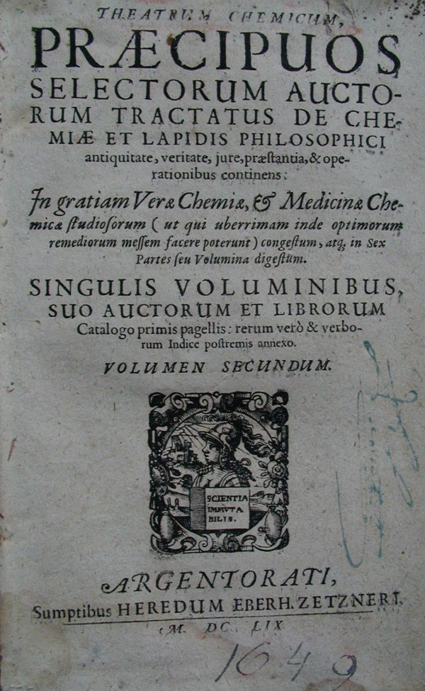 Page 1 of "Theatrum Chemicum", Volume II, originally printed 1602 in Oberursel, Germany by Lazarus Zetzner (Zetznerni, Zetznerus)